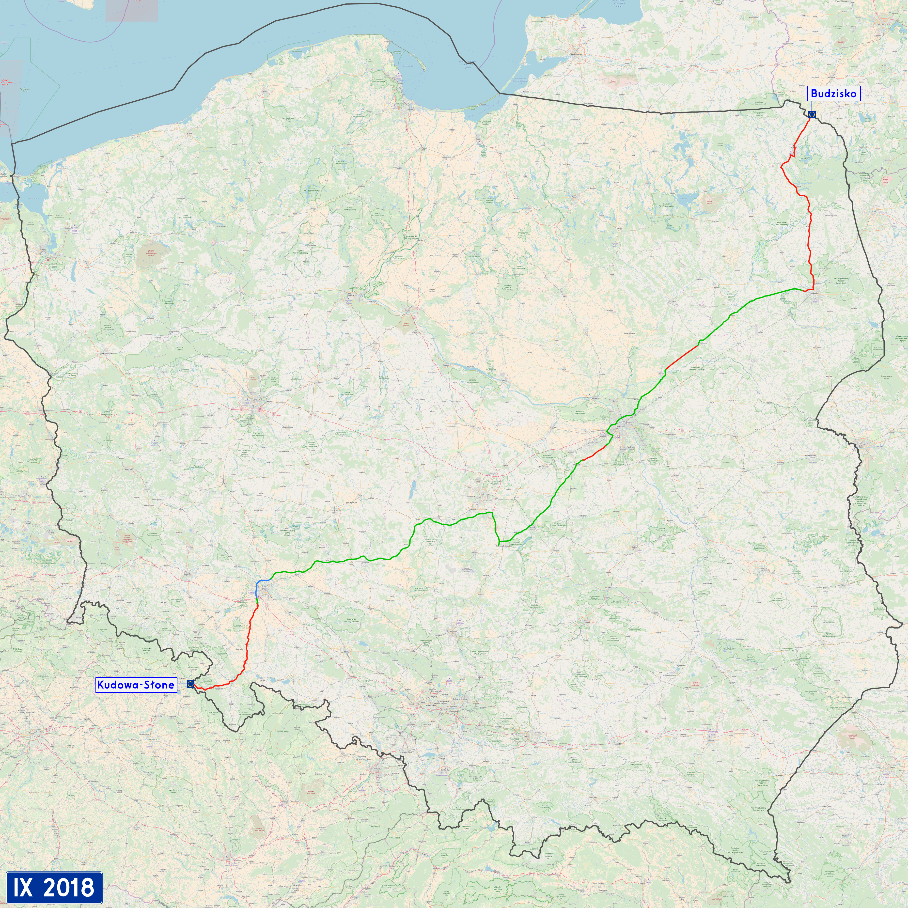 Map of route of Polish national road 8. Background from OpenStreetMap. National road 8 Expressway S8 Motorway A8 (Wrocław Motorway Bypass) Note: The expressway S8 has a concurrency with motorway A1 near Piotrków Trybunalski.